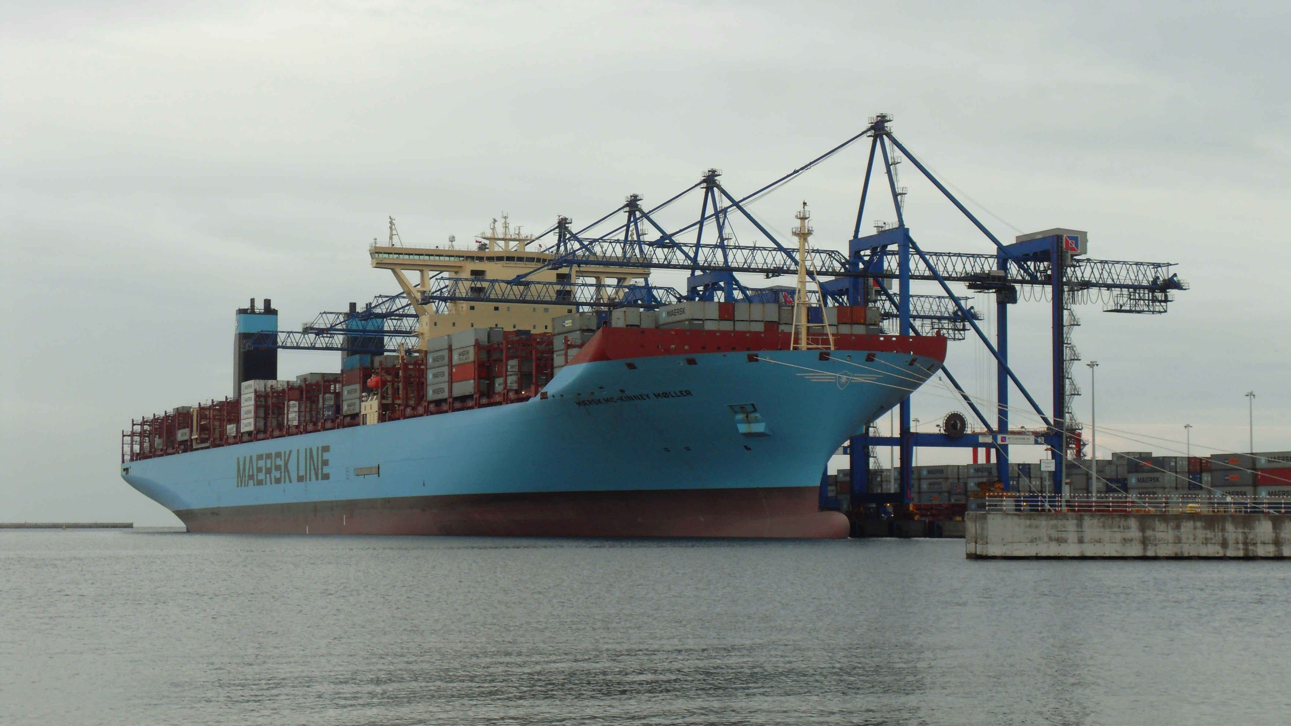 Mærsk MC-Kinney Møller (nowadays the world's longest ship) in The Deepwater Container Terminal Gdańsk.